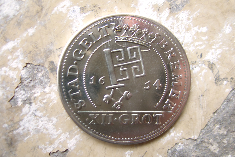 Bremer Geschichtenhaus („Story house of Bremen“) at Schnoor quarter: Replica of a Bremen 12-Groten coin of 1654